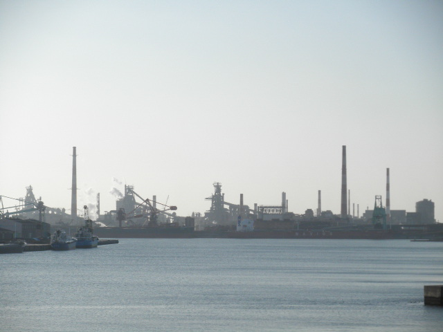 Kobe Steel Kakogawa steelworks background